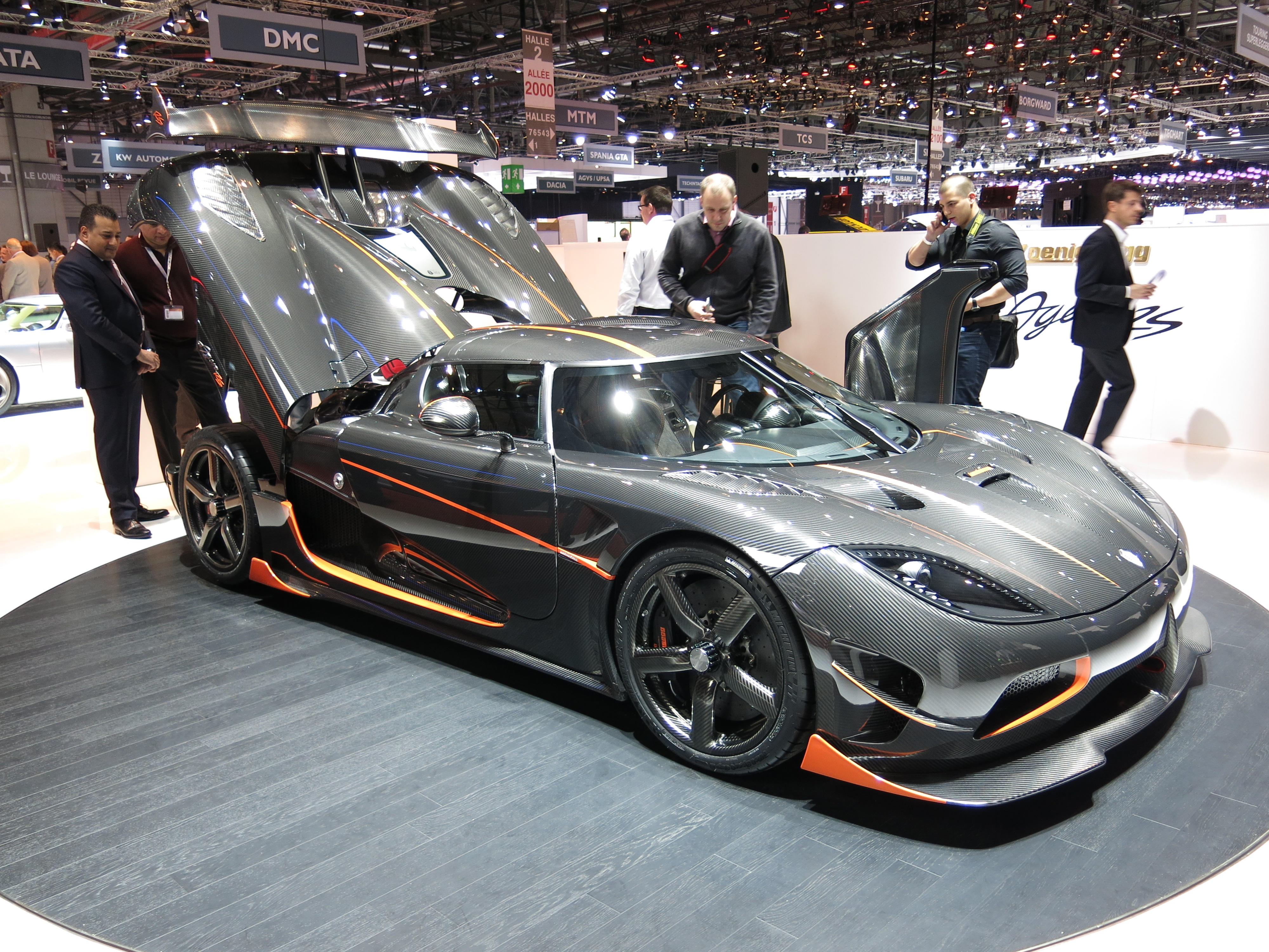 Geneva Motor Show 2015 (photo taken on the first press day)